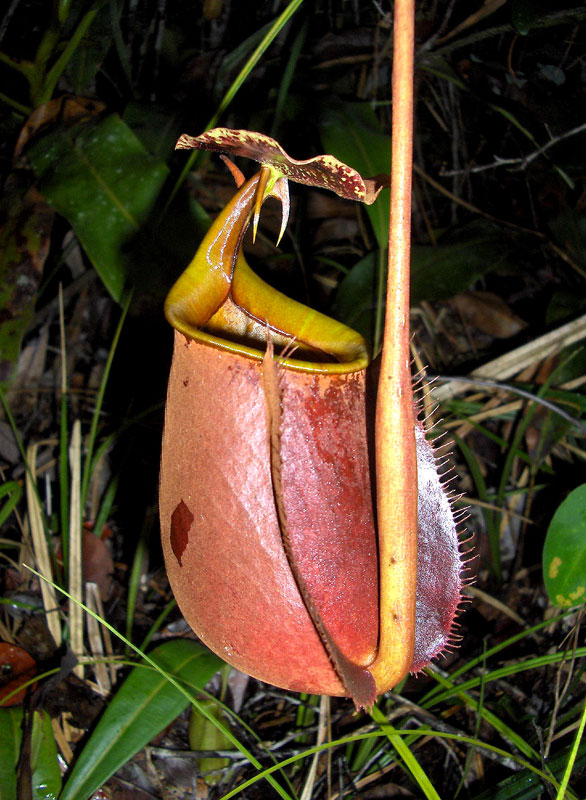 Nepenthes bicalcarata lower pitcher.